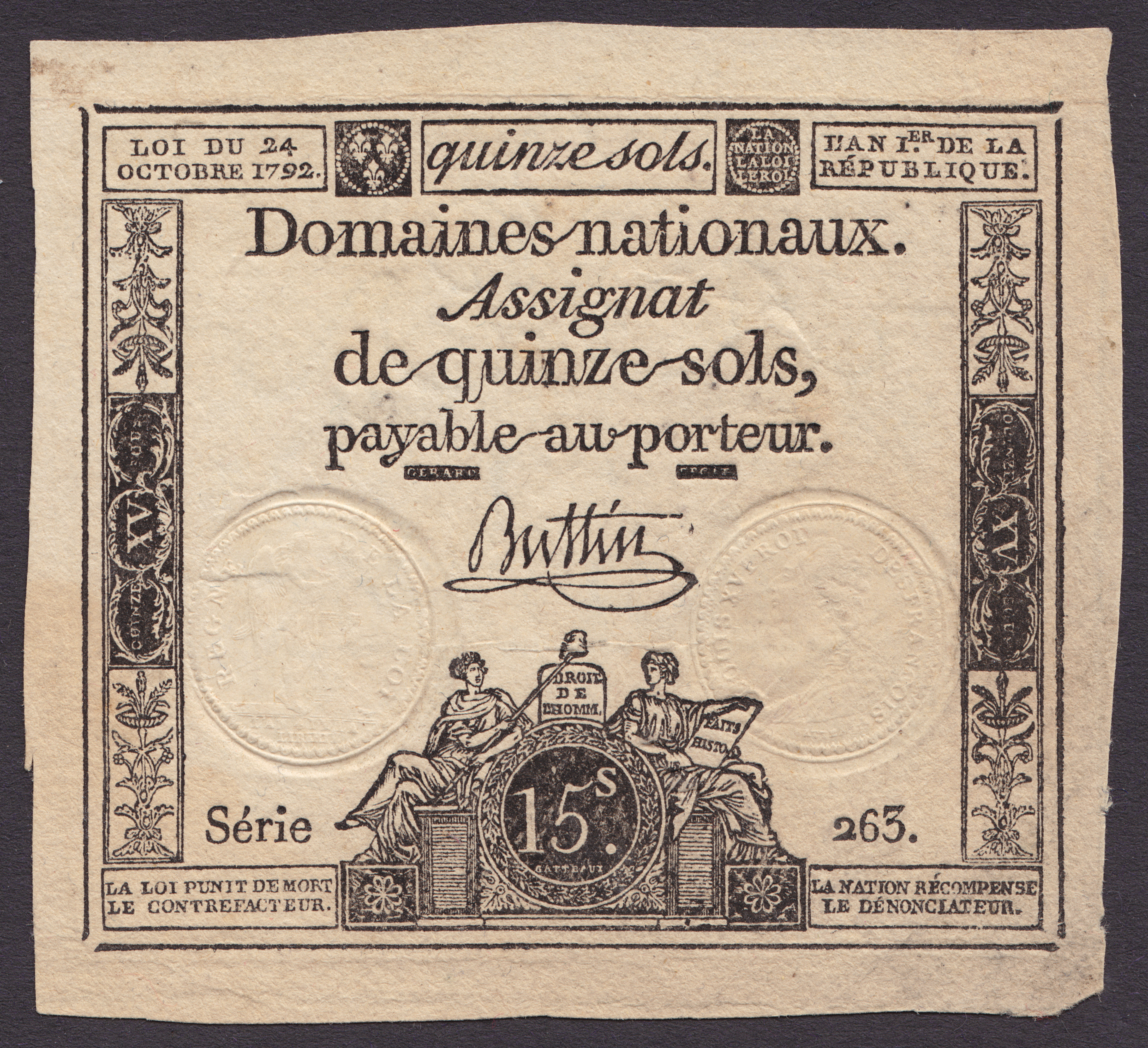 Assignat for 15 sols